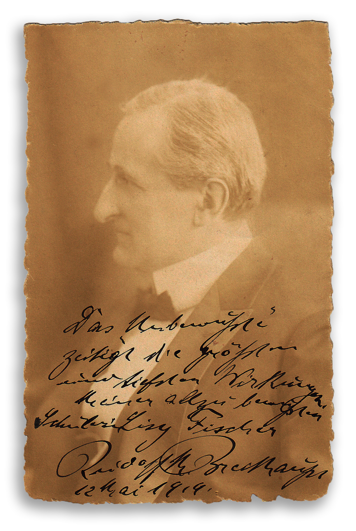 "The unconscious produces the greatest and most profound effects. To my student, Lisy Fischer, who is very conscious of what she is doing."